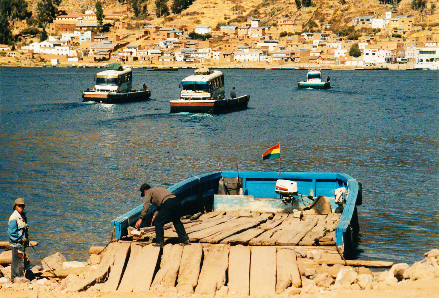 Strait of Tiquina